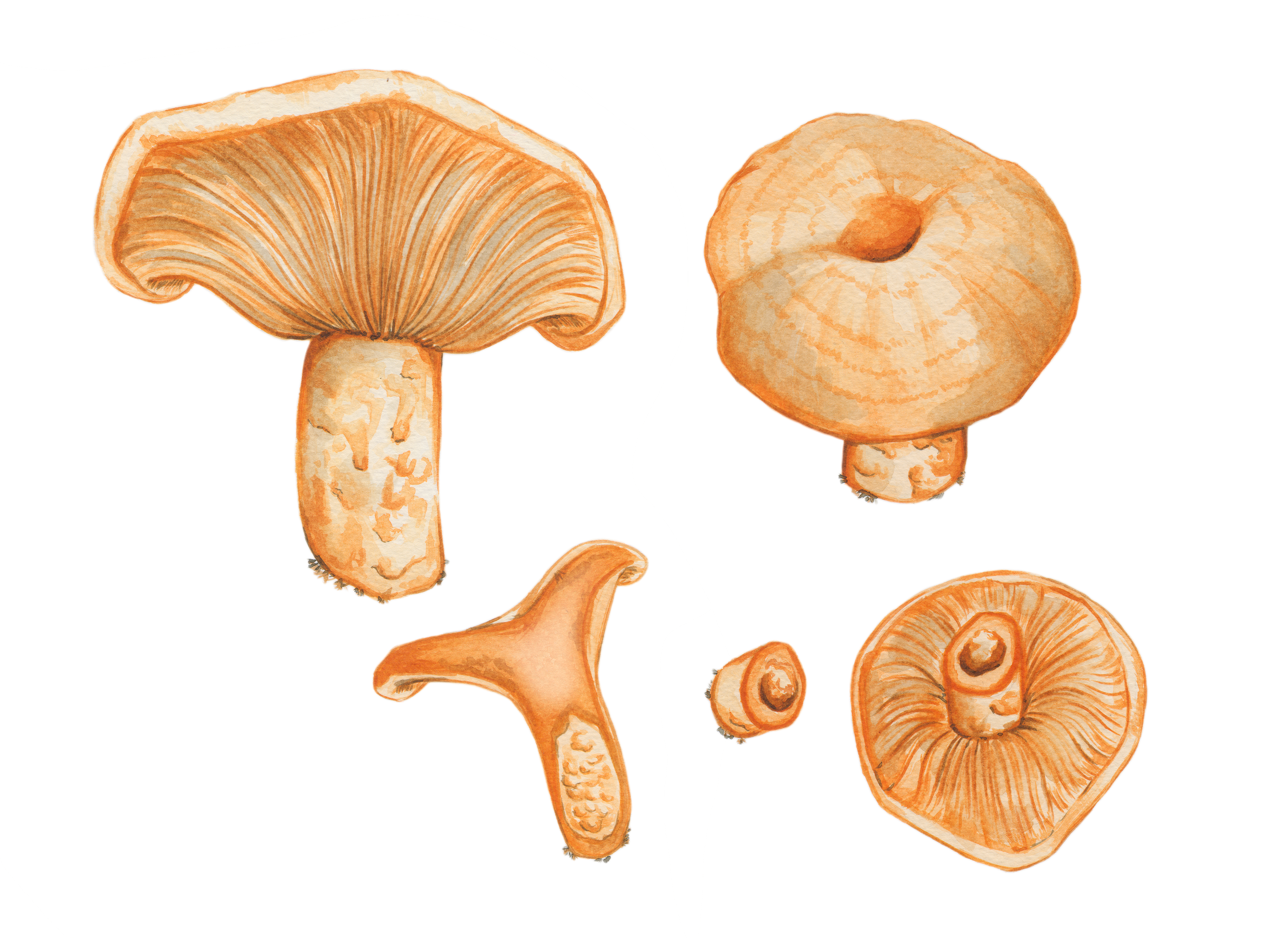 Scientific illustration of the mushroom Lactarius Salmonicolor. Illustration with watercolor and pencil made with the advice of Josep Cuello, biologist. This image was provided to Wikimedia Commons as a contribution from an Art&Design School thanks of a collaboration between Art del Treball and Amical Wikimedia.